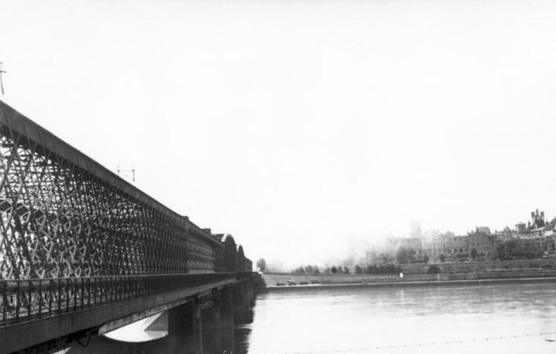 Warsaw Uprising: Kierbedź Bridge viewed from Praga district towards Royal castle and burning Old Town.